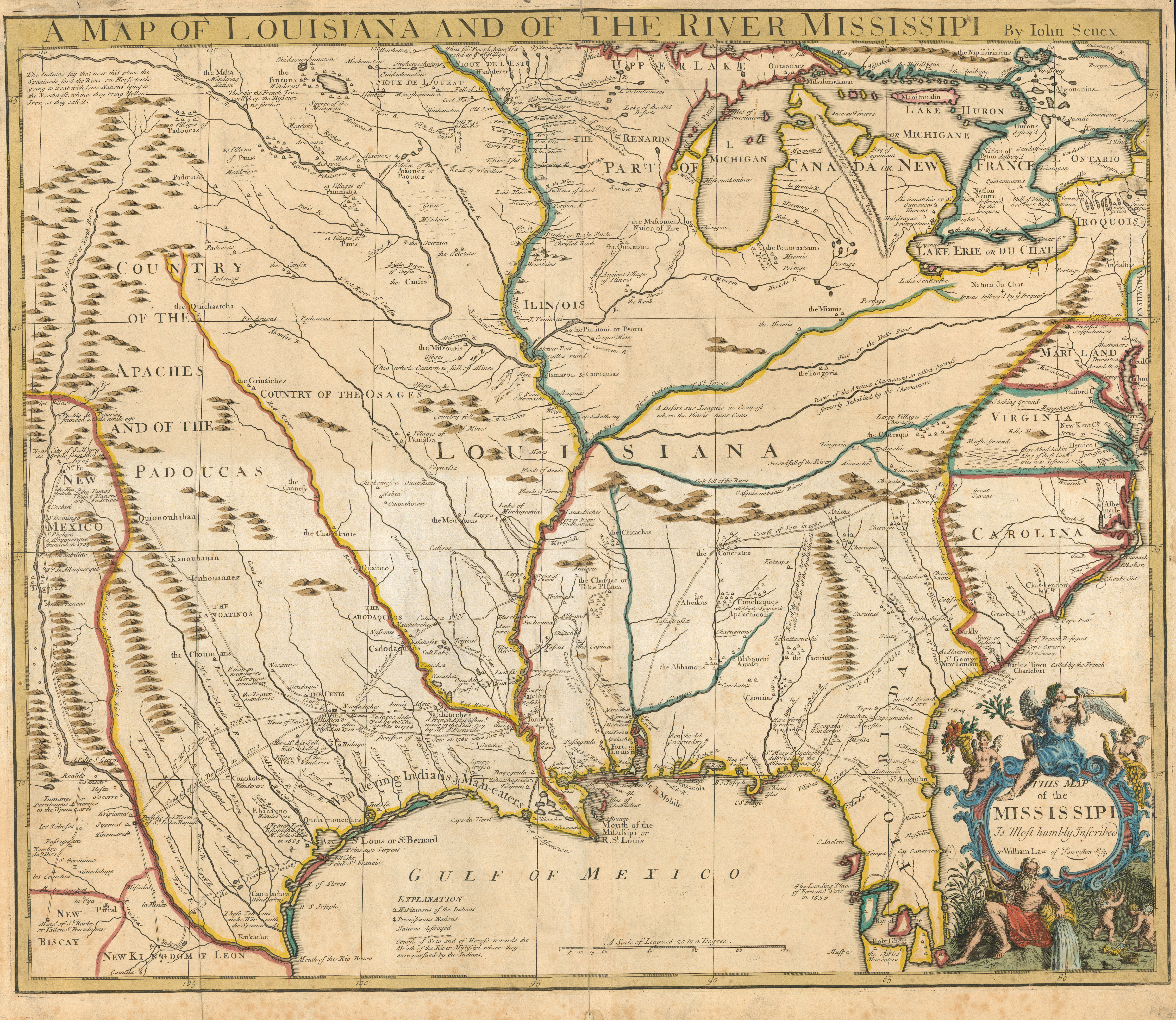 For this map, English scientific publisher, bookseller, mapmaker, mapseller, instrument-seller, globemaker, engraver and surveyor John Senex (1678-1740) copied and translated Guillaume Delisle's 1718 Carte de la Louisiane with no credit to the French cartographer. For example, the inscription along the Texas coast in Delisle's map "Indiens errans et Antropophages" became "Wandering Indians & Man-eaters" in Senex's map. Senex's cartouche was different, though, and contains a dedication to William Law, probably a relative of John Law (1671-1729) and possibly his brother. John Law bore much of the blame for the financial panic known as the "Mississippi Bubble" and these maps all appeared around the time of the crisis. Like his brother, William Law the younger (1675-1752) was involved in the administration of both the Banque Generale and the Louisiana Company and was reportedly later imprisoned for fifteen months in the Bastille for corruption.